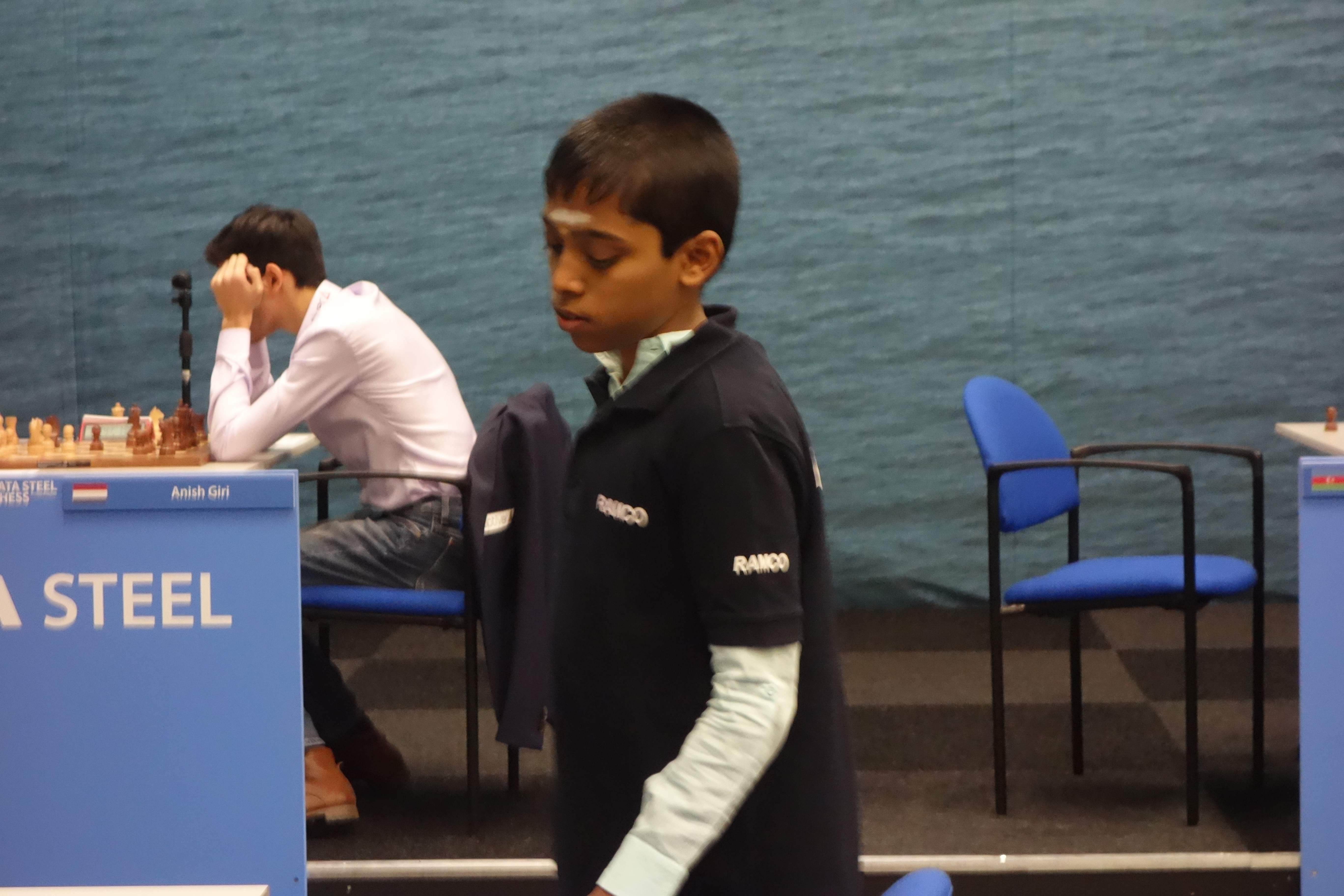 Tata Steel Chess Tournament 2019, Wijk aan Zee (the Netherlands), 13 Jan. 2019